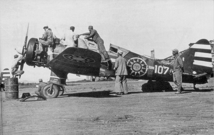 ROC Air Force soldiers servicing warplane.